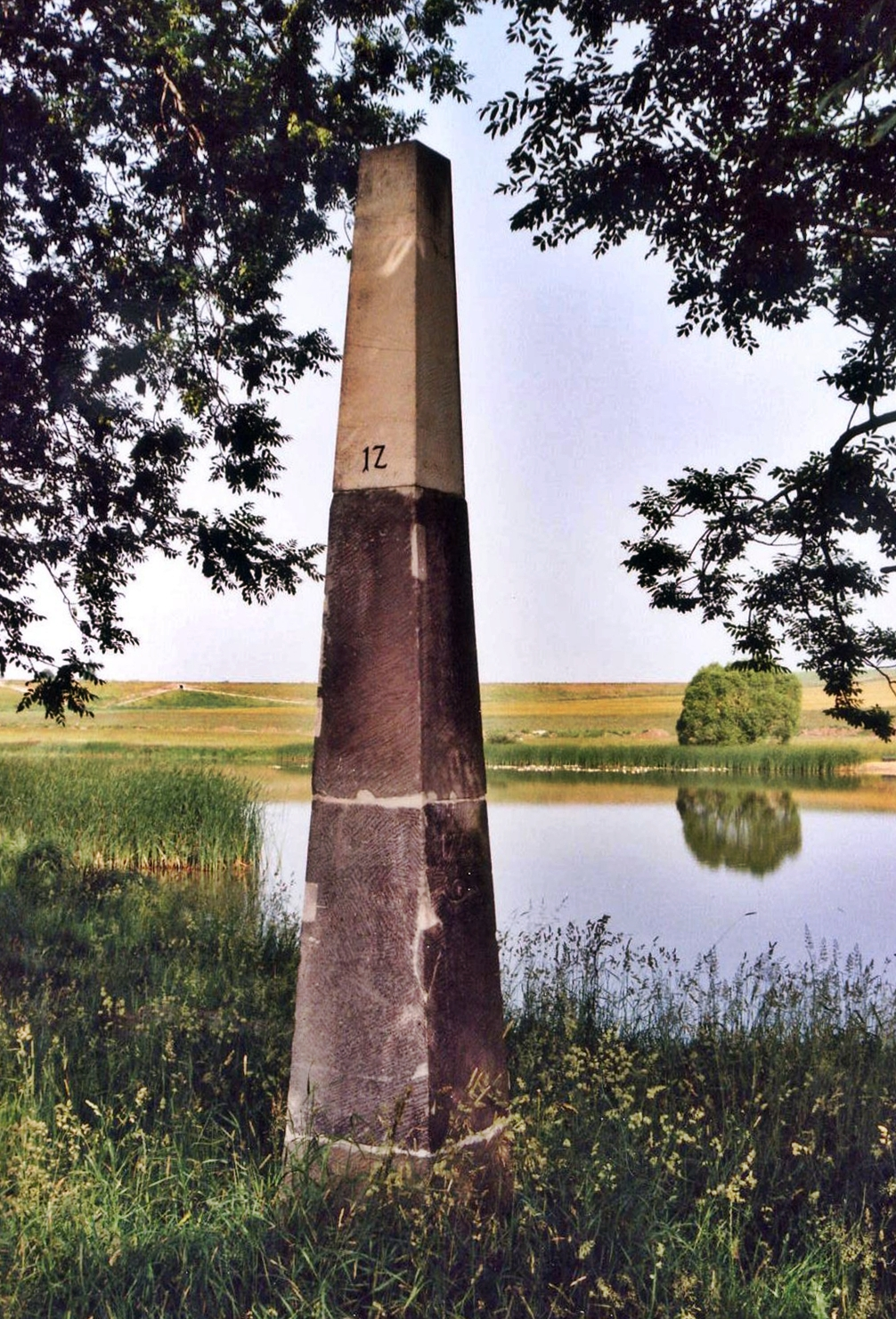 This image shows a electoral saxonian full-milestone from 1729 on the former post-route from Dresden to Prague near Göppersdorf.